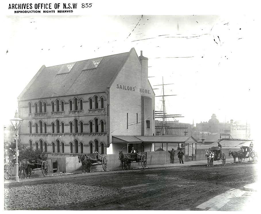 The Sailors Home, 124 George Street, The Rocks, Sydney, New South Wales, Australia Dated: No date Digital ID: 4481_a026_000054 Rights: We'd love to hear from you if you use our photos. Many other photos in our collection are available to view and browse on our website using Photo Investigator.